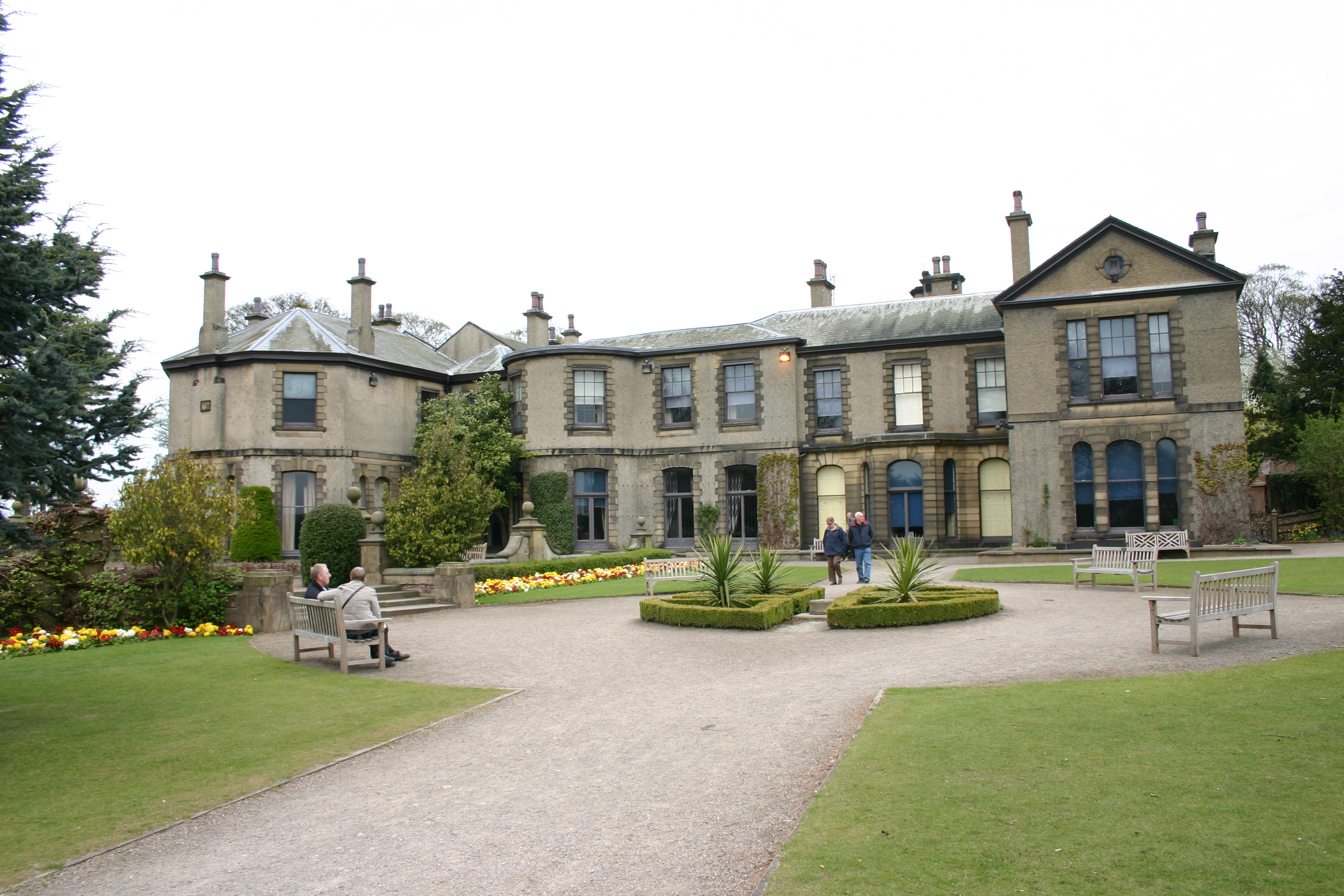 Edwardian era gardens and architecture at Lotherton Hall, Aberford, near Leeds, England. Lotherton Hall doubled as 'Vernon Lodge' in the Sherock Holmes episode "The Illustrious Client" (1991).